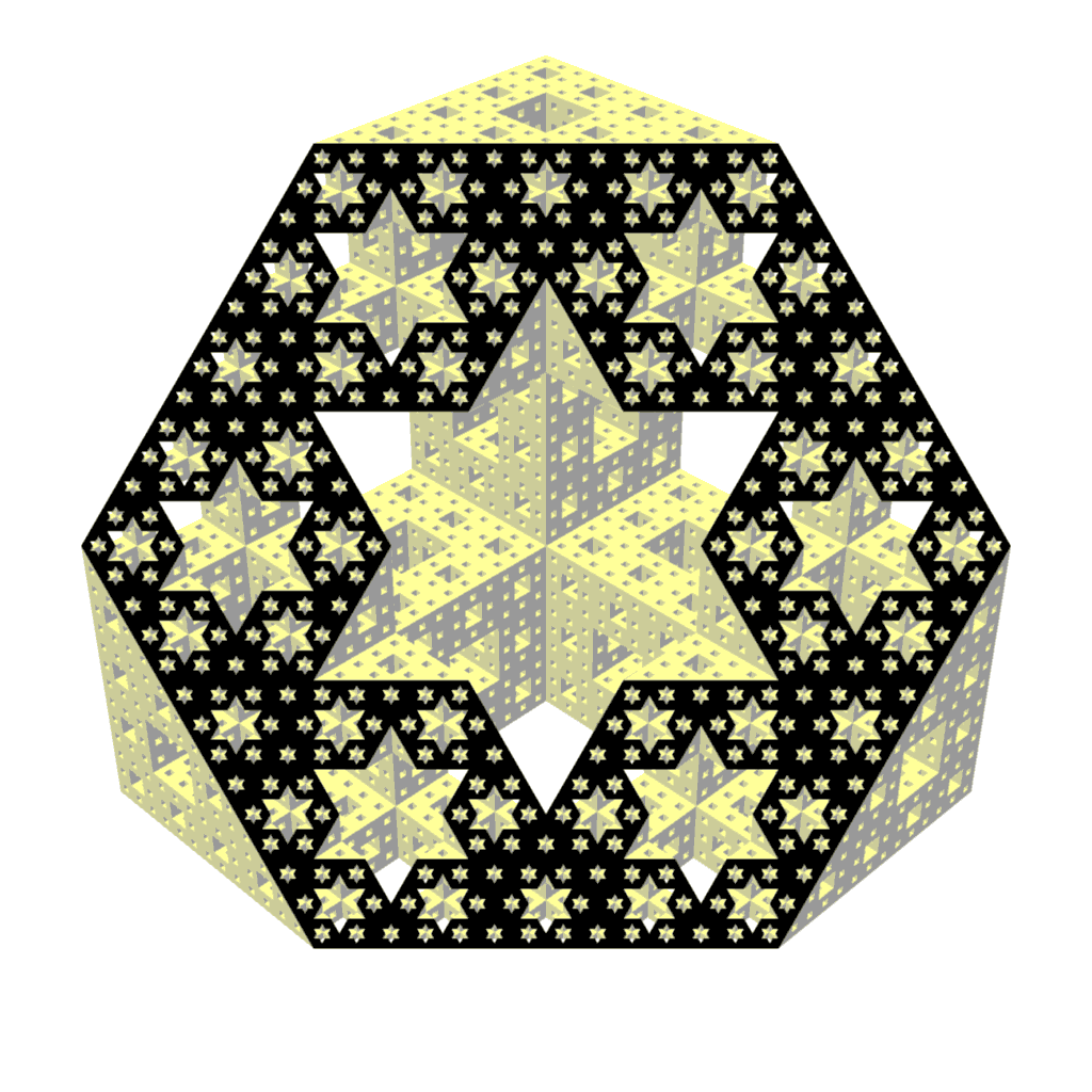 The cross-section of a level-4 Menger sponge through its centroid and perpendicular to a space diagonal comprises regular hexagrams arranged in six-fold symmetry. The cross-section is true-view.